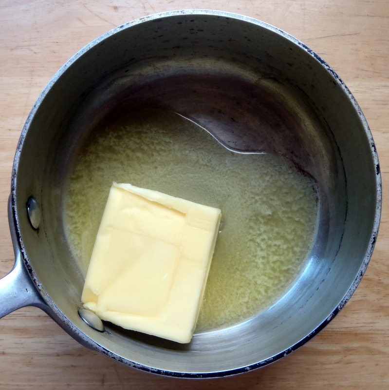 Melting butter in a pan